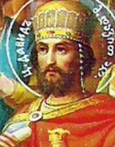 David IV of Georgia (zoomed and cropped)